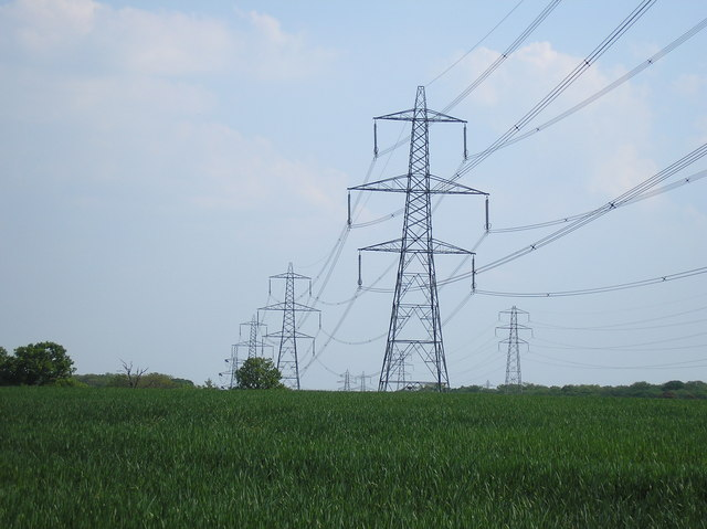 A pair of electricity transmission towers A 400kV and 132 kV power line heading to the substation at Little Barford Cambridgeshire